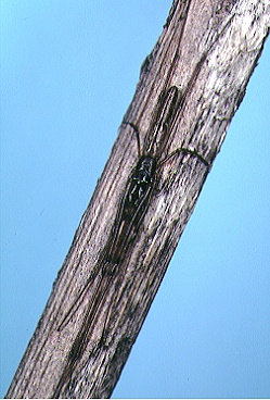 male Tetragnatha ceylonica from Okinawa.